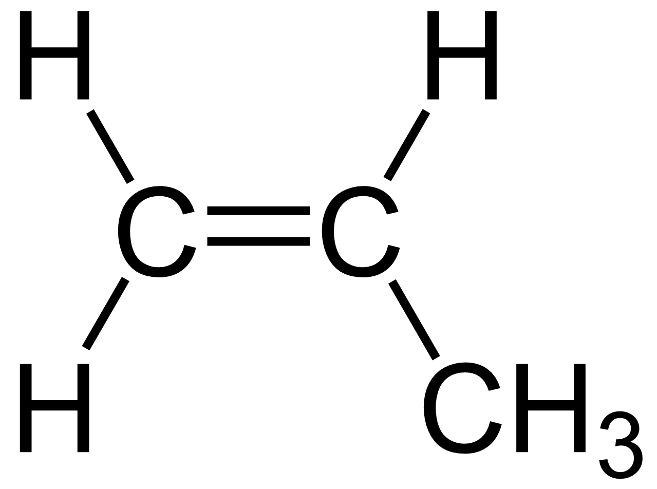 Structure of propene